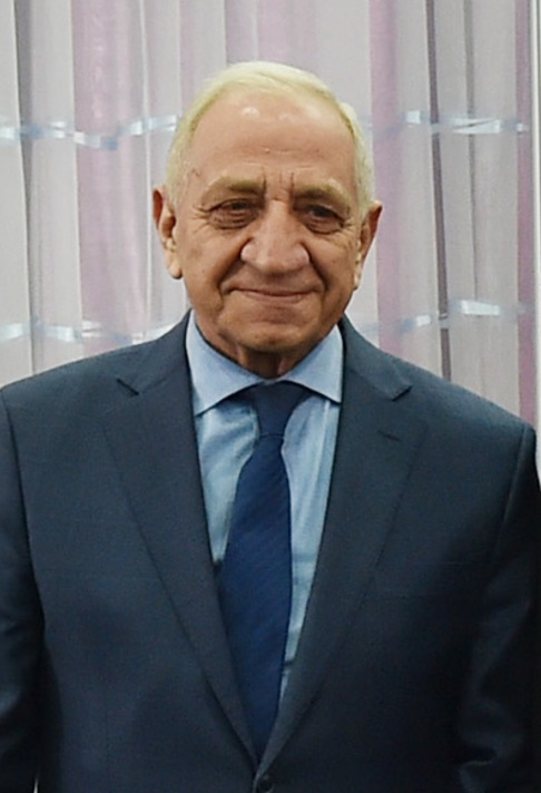 Ilham Aliyev attended a ceremony dedicated to sport results of 2015 in Azerbaijan